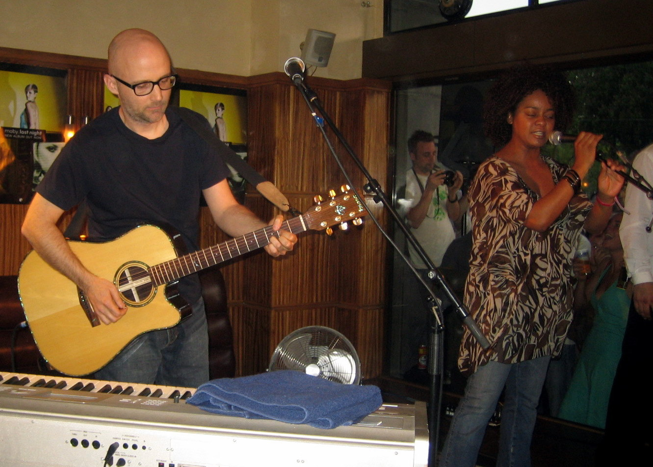 Moby and Joy Malcolm at the Café Belga in Brussels, May 2008